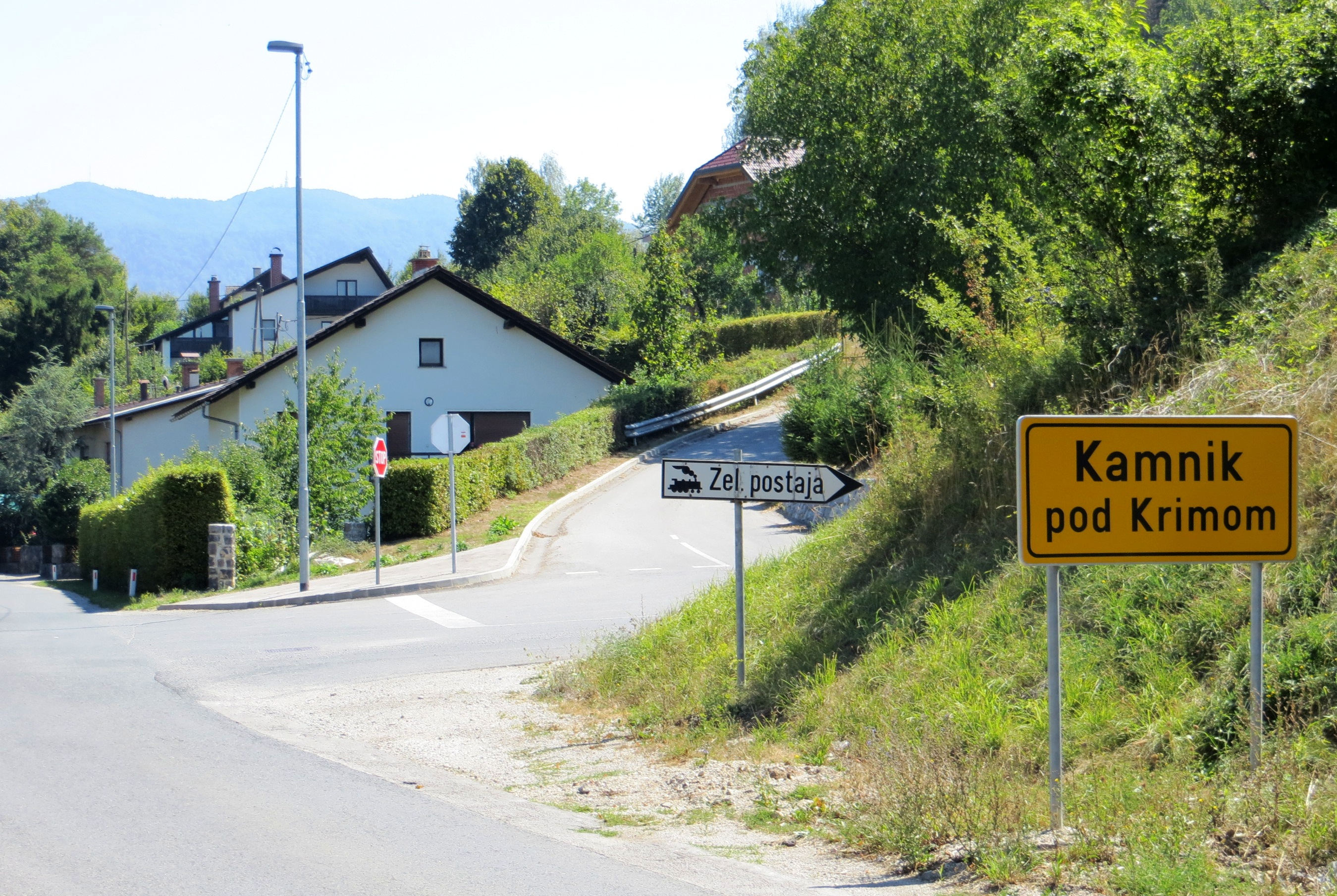 Kamnik pod Krimom, Municipality of Brezovica, Slovenia